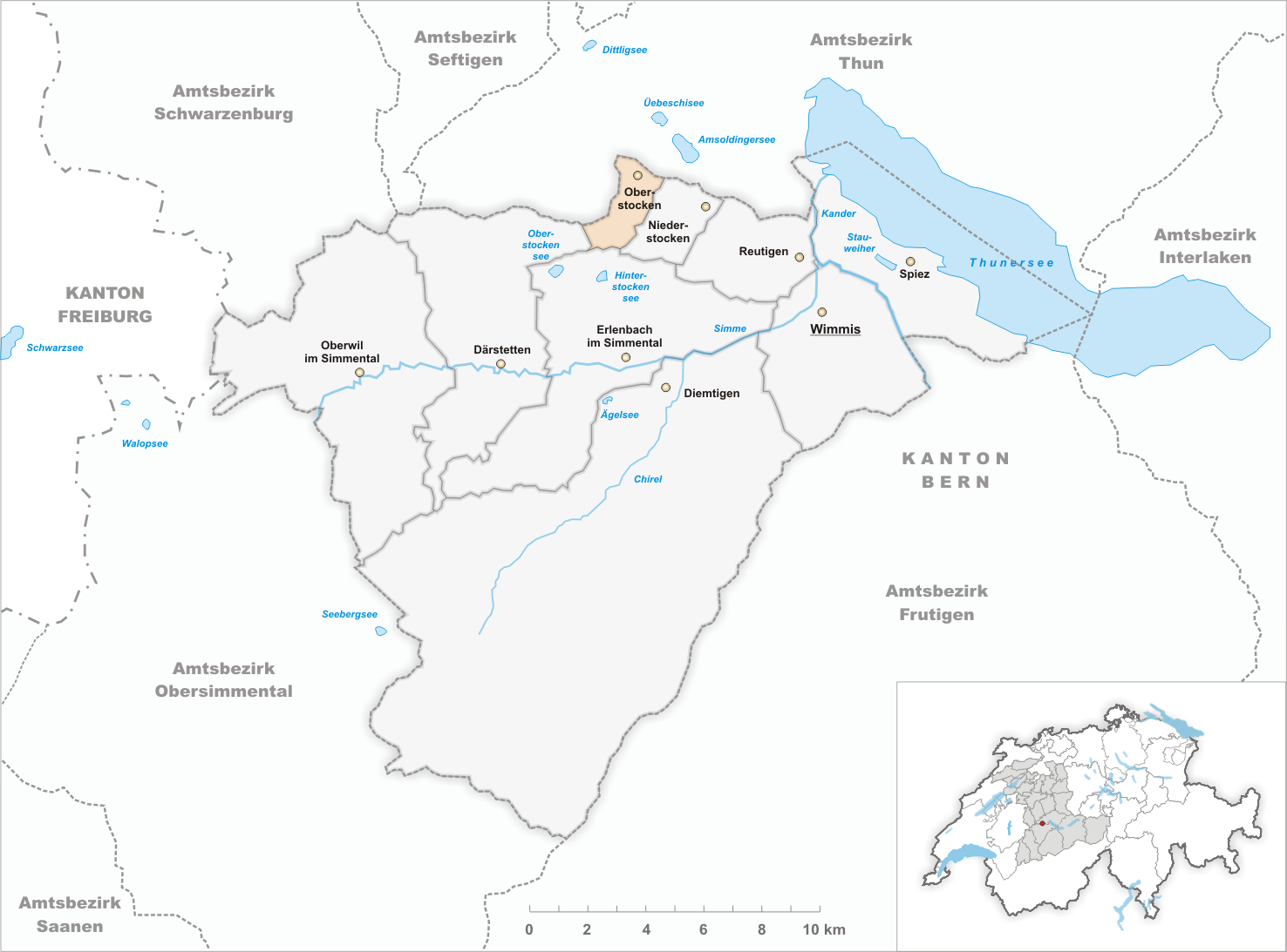 Municipality Oberstocken